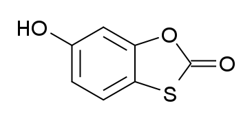 i drew this anyone can use it